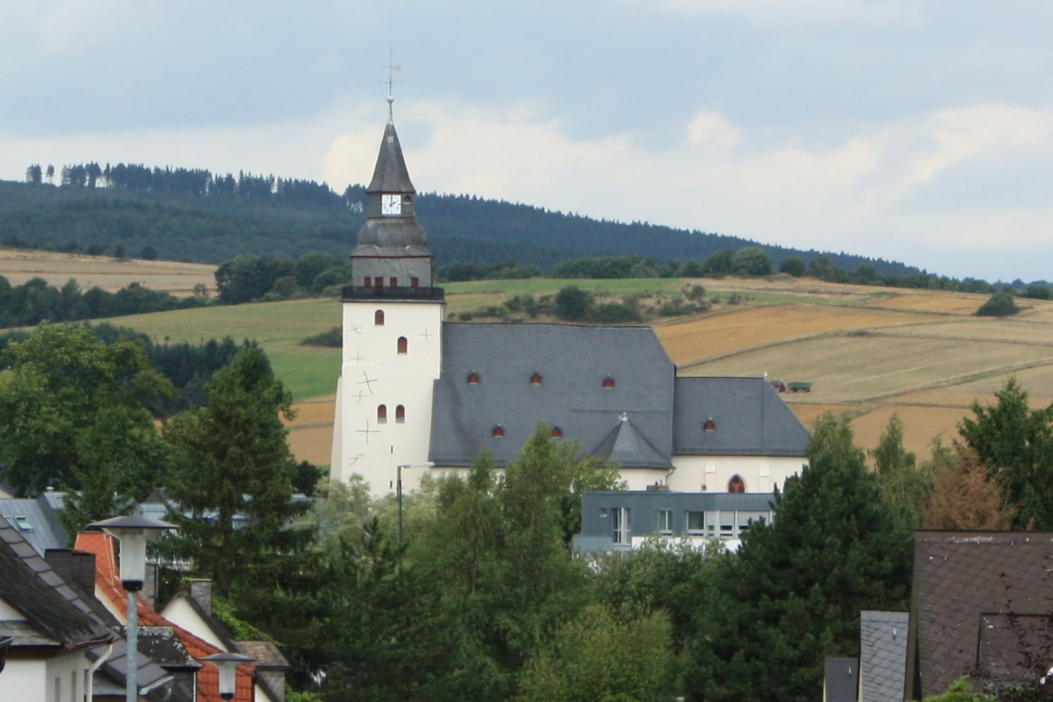 Lutheran Church in Haiger, Hesse, Germany